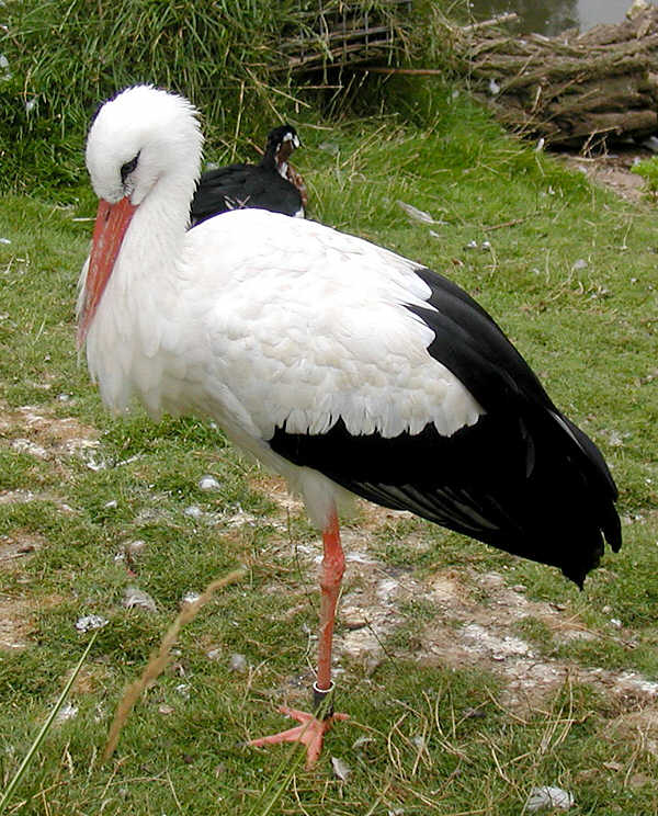 White Stork Ciconia ciconia at Bristol Zoo, Bristol, England.